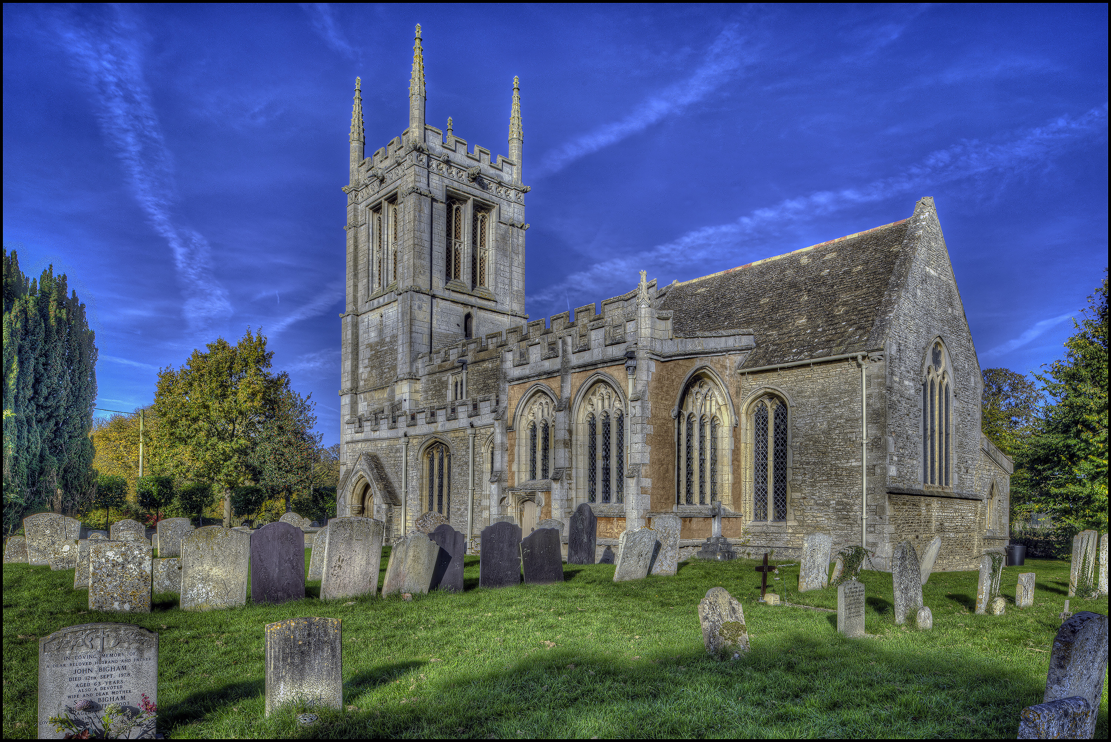 All Saints' church, Aldwincle